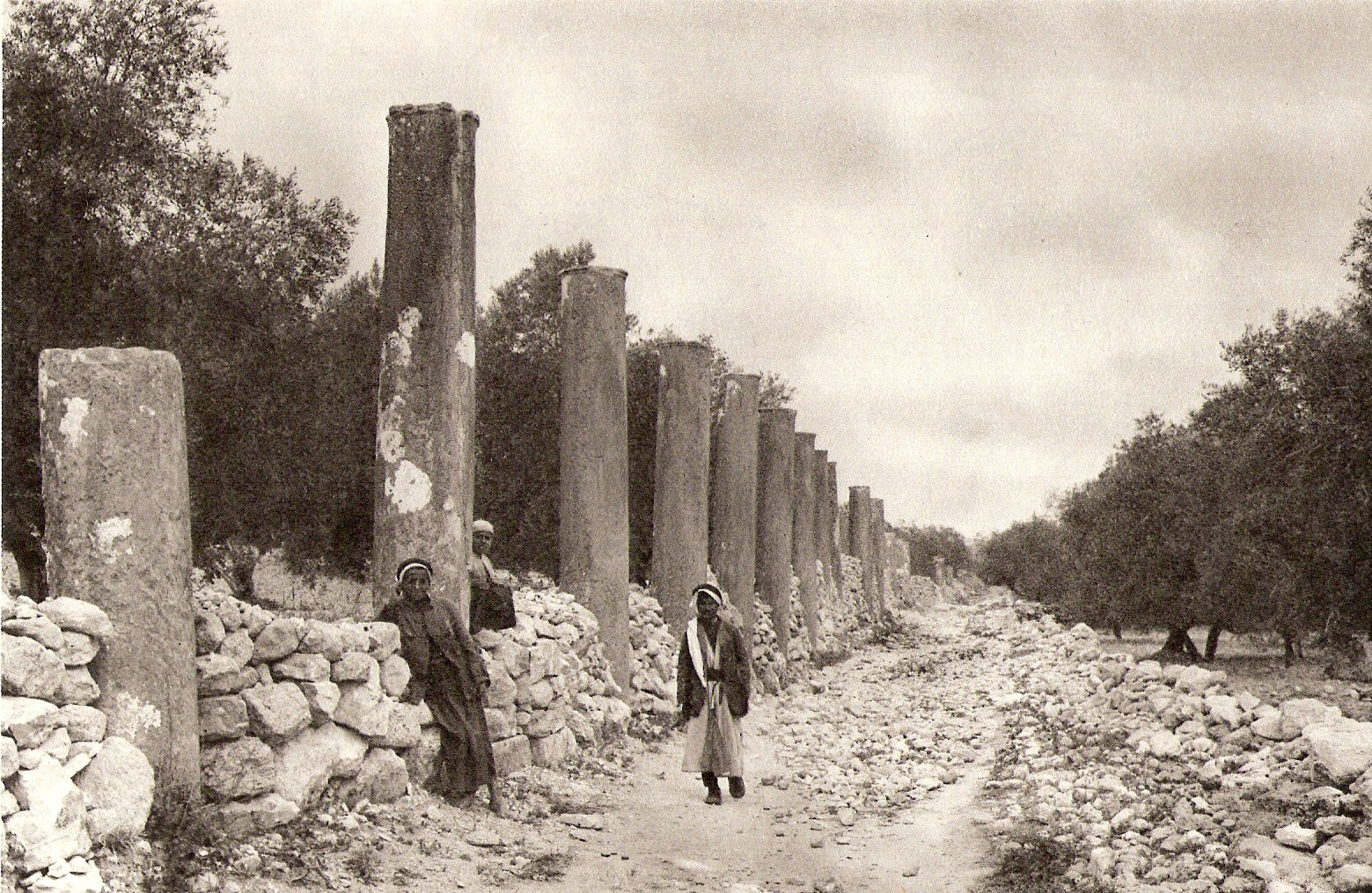 A street of Pillars at the ruins of the city Samaria